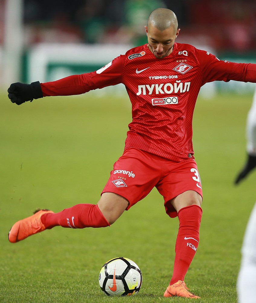 Sofiane Hanni